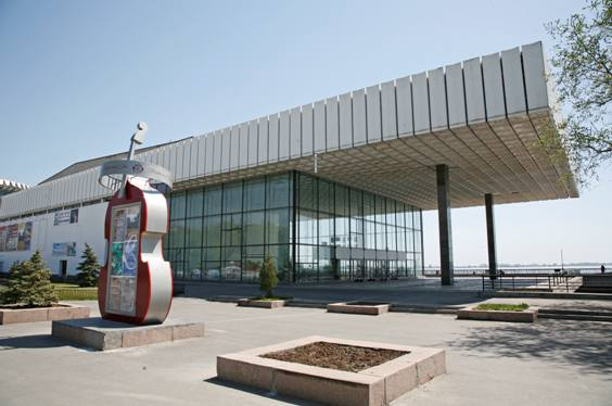 Central Concert Hall in Volgograd.